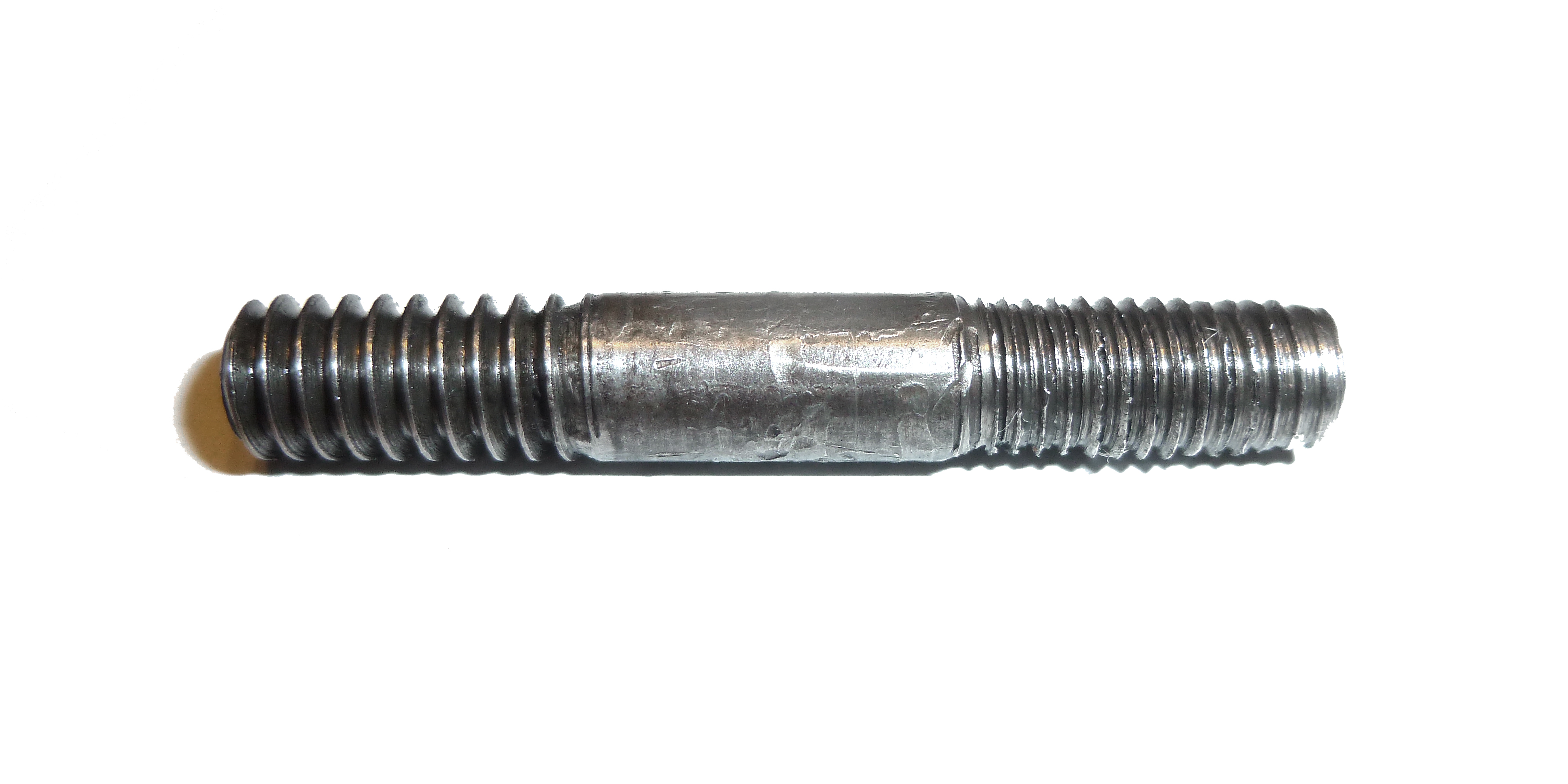 XK engine camshaft cover front stud, threaded 1/4" UNC for aluminium head (left) and 1/4" UNF for steel nut (right, thread partly worn)